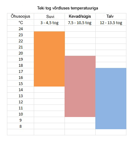 Chart showing the relationship between temperatures and tog ratings of quilts , (duvets), and their comfort categories, Estonian translation.